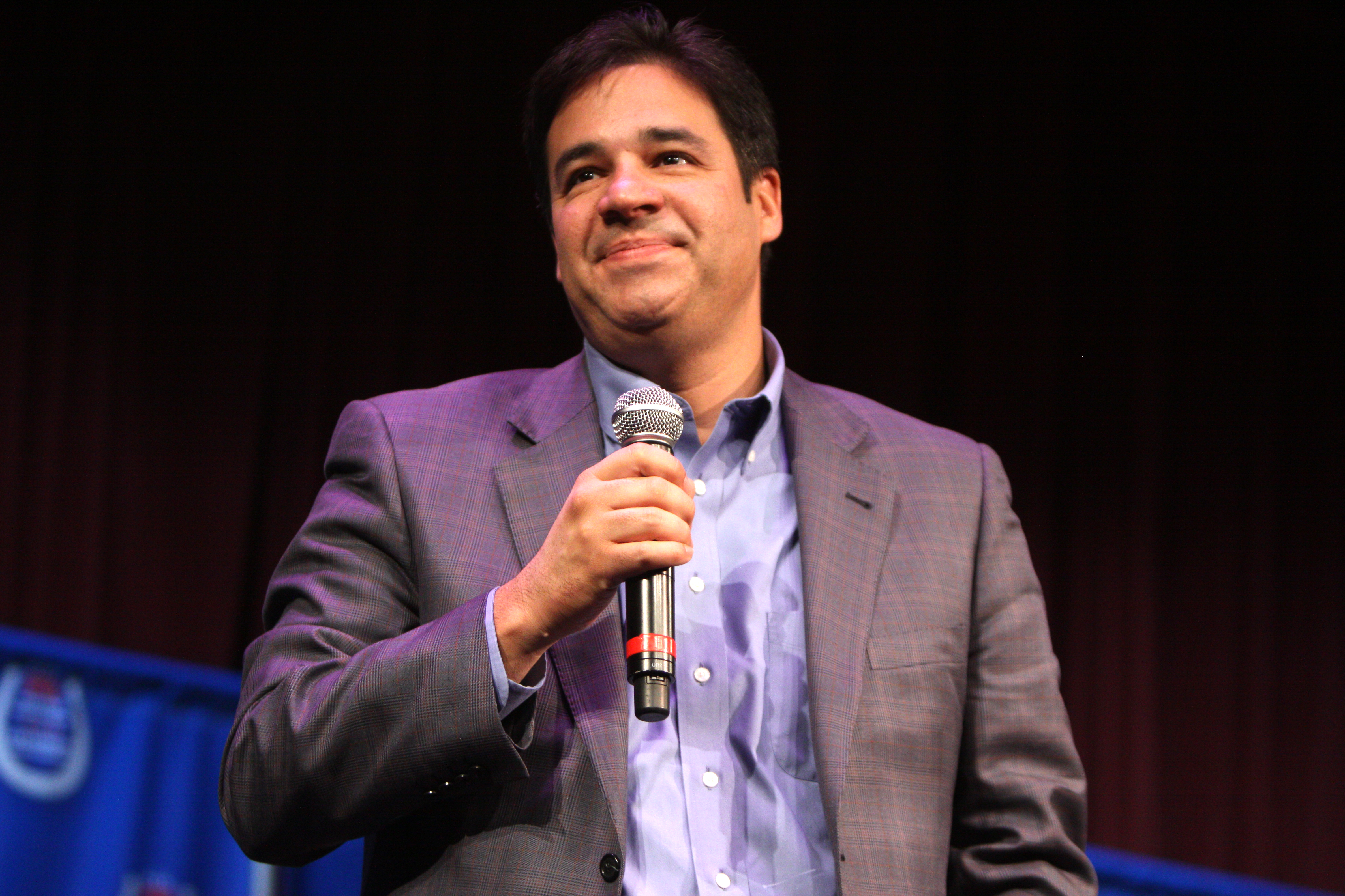 Raul Labrador speaking at an event in October 2011.